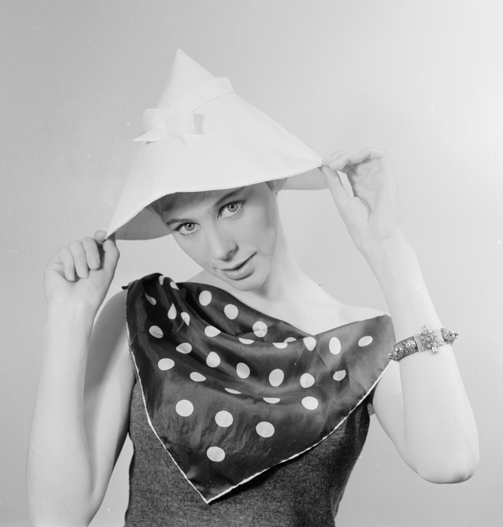 Henny Moan, Norwegian actress, 1958